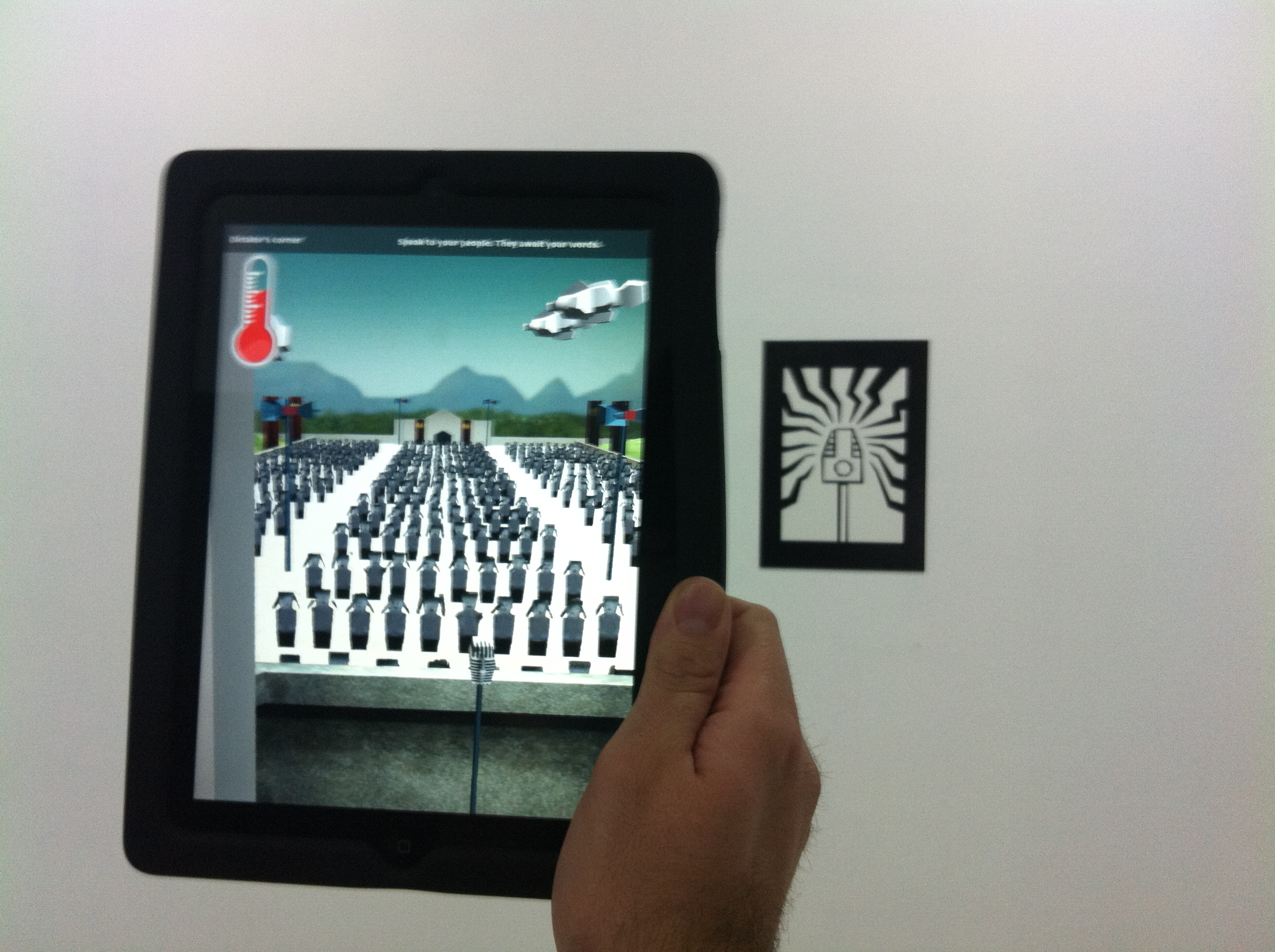 Augmented reality Room at CCCB Pantalla Global exhibit -Global Screen-. Jan 2012